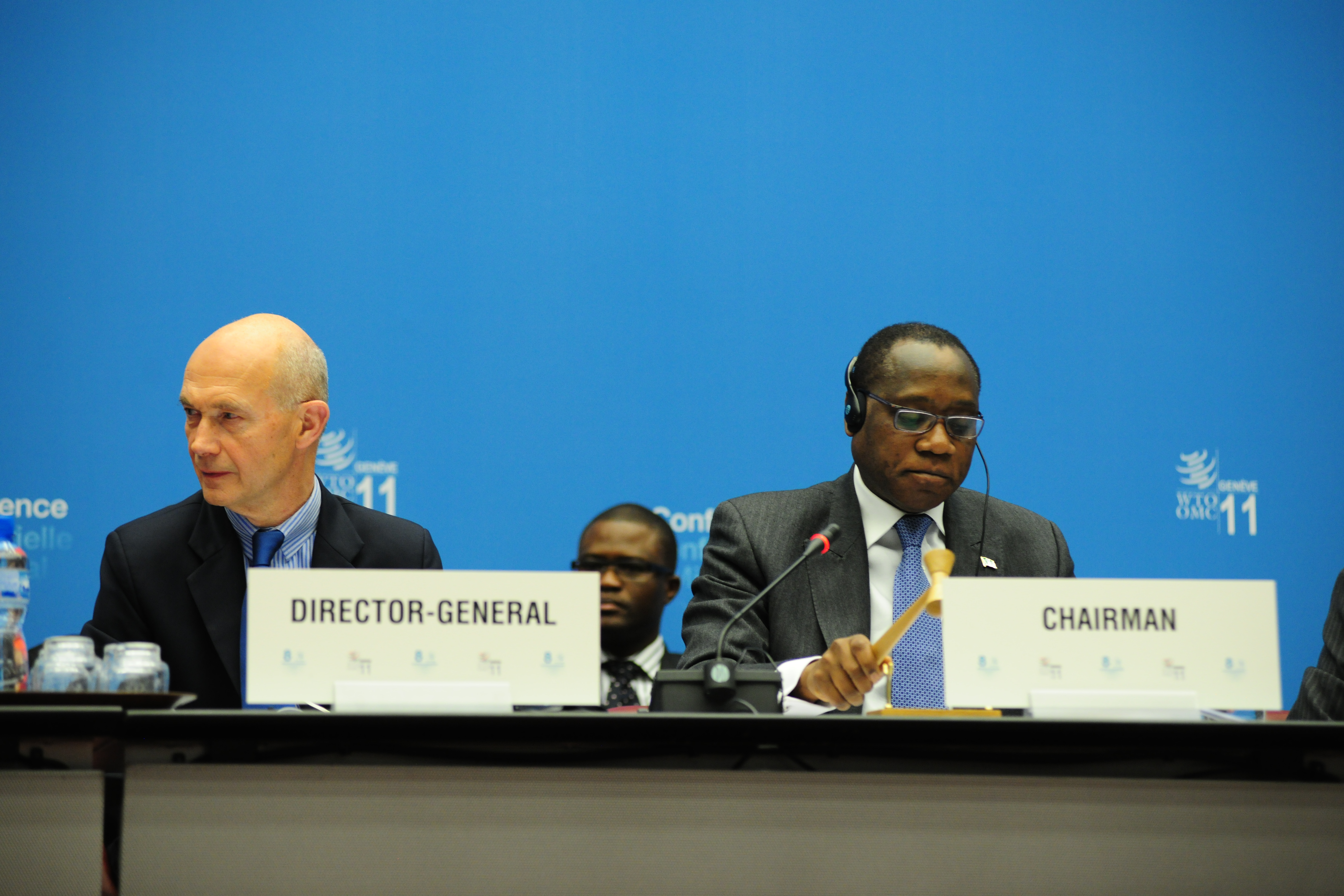 Pascal Lamy of France, director general of the World Trade Organization (left) and Olusegun Olutoyin Aganga of Nigeria, chairman of the Eight Session The Eighth Session of the Ministerial Conference Was held in Geneva, Switzerland from 15-17 December 2011, as agreed by the General Council at its meeting in October 2010.